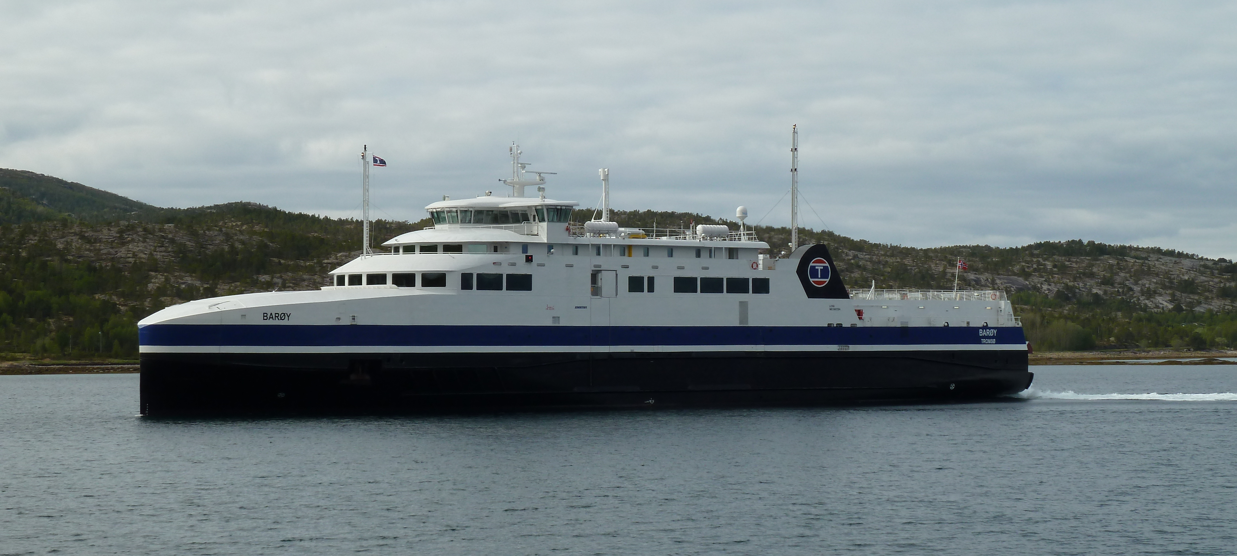 Gas driven car ferry "Barøy" in Bognes, Nordland, Norway.